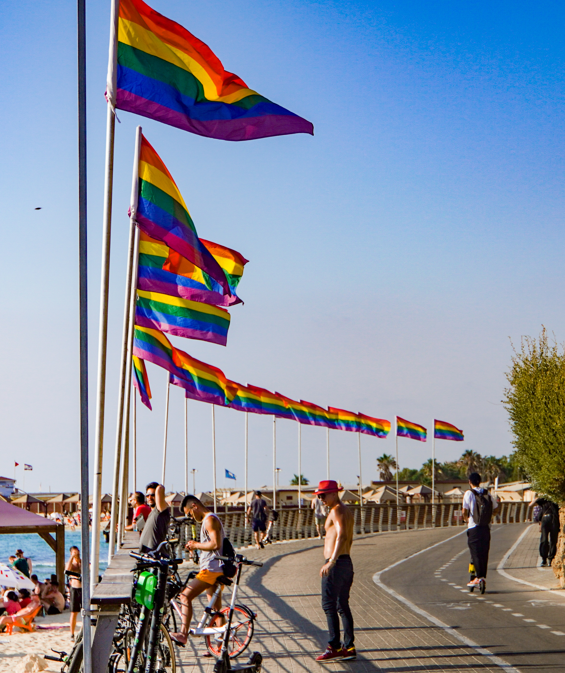 2019.06.13 Hilton Beach at Tel Aviv Pride, Tel Aviv Israel 1640019